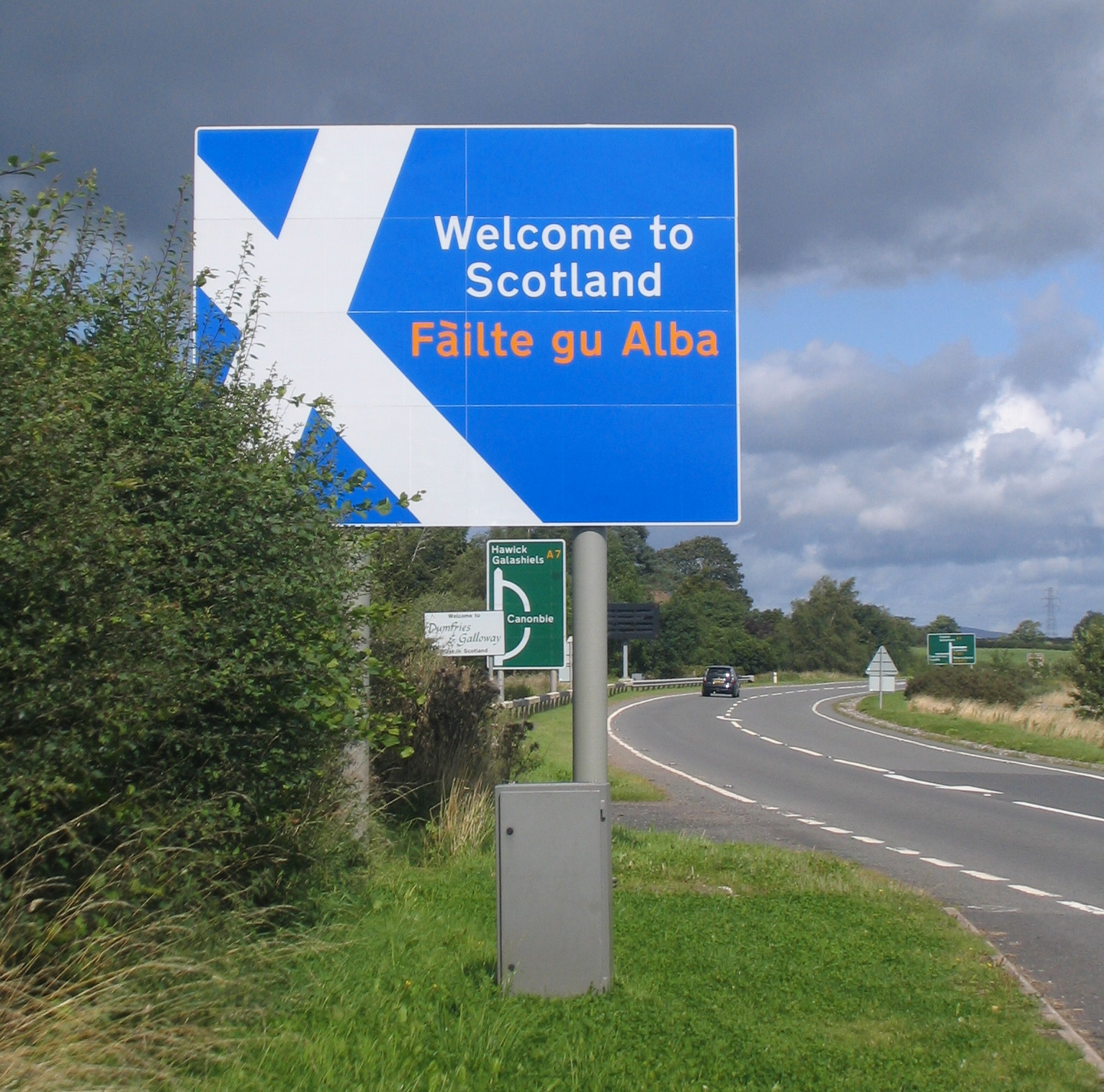 Fàilte gu Alba, Welcome to Scotland (new sign on the A7)